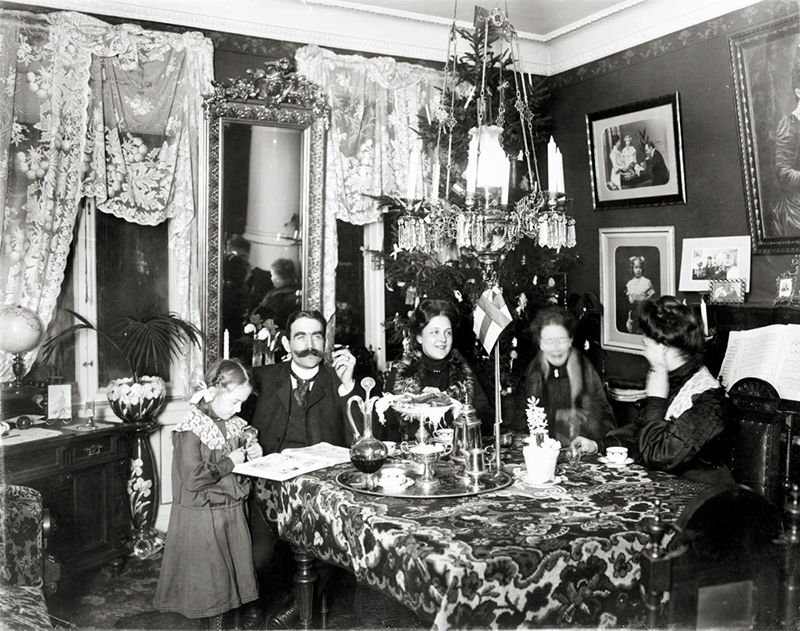 Christmas, a bourgeois home around 1900 (1895-1905). Family having coffee in the lounge. Swedish Union Flag in miniature on the table. During the long exposure, two ladies have to move and talk.